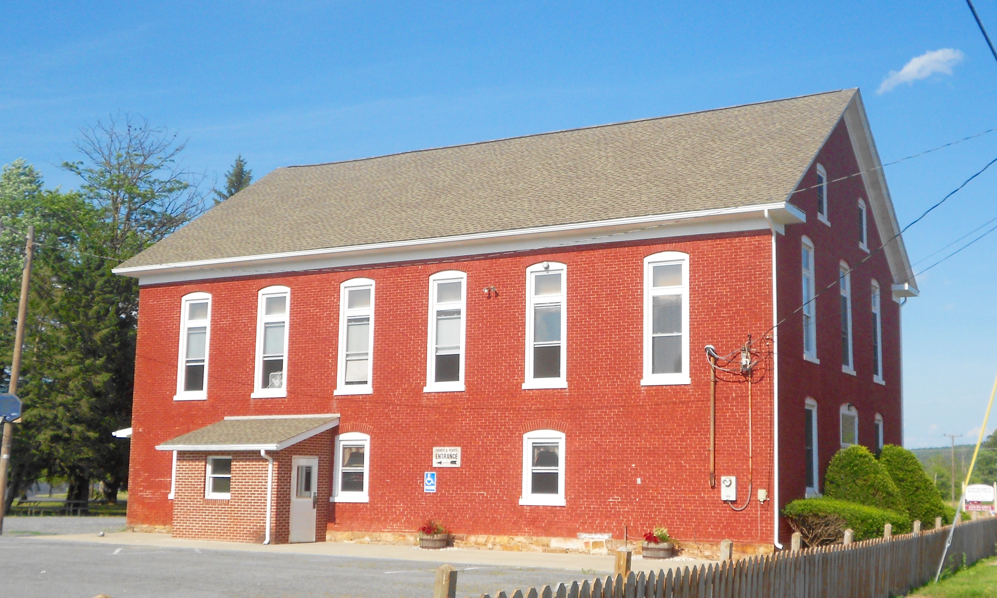 Cocolamus Mennonite Church in Bunkertown, Pennsylvania about a mile north of the community called Coclamus